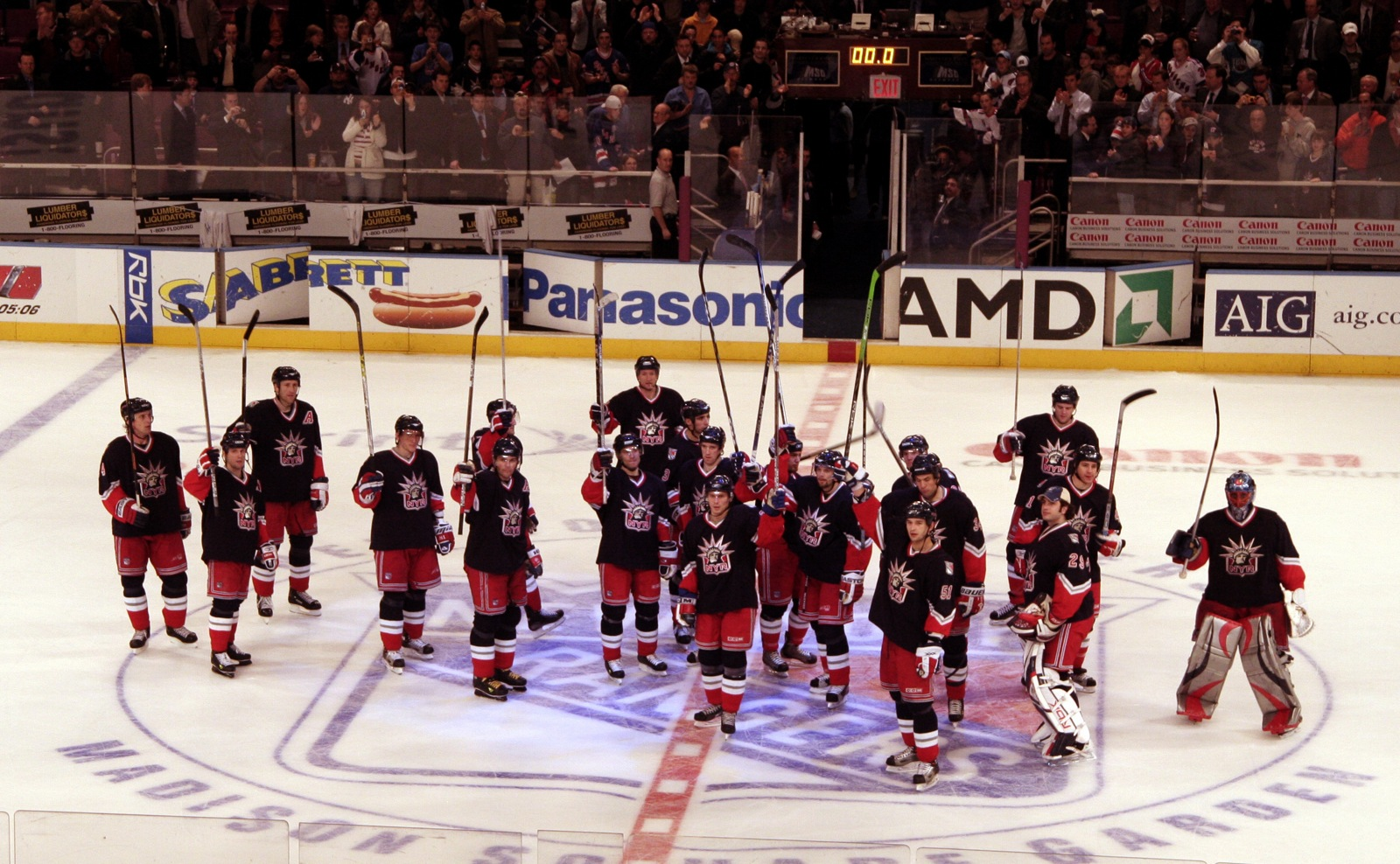 New York Rangers after a match vs. the Islanders